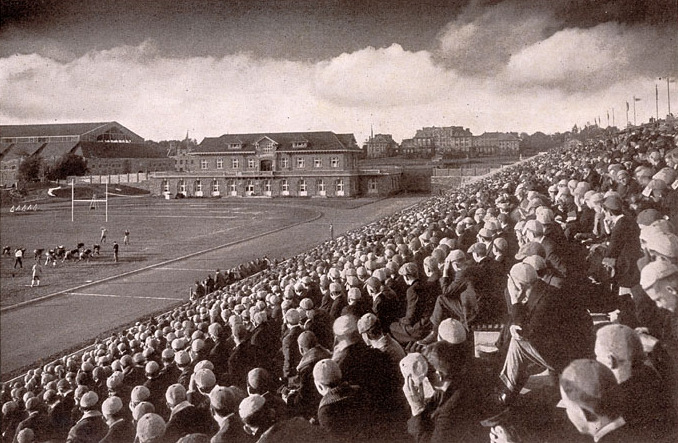 Picture taken in 1919. Schoellkopf Field at Cornell University circa en:1919. Category:Cornell University buildings